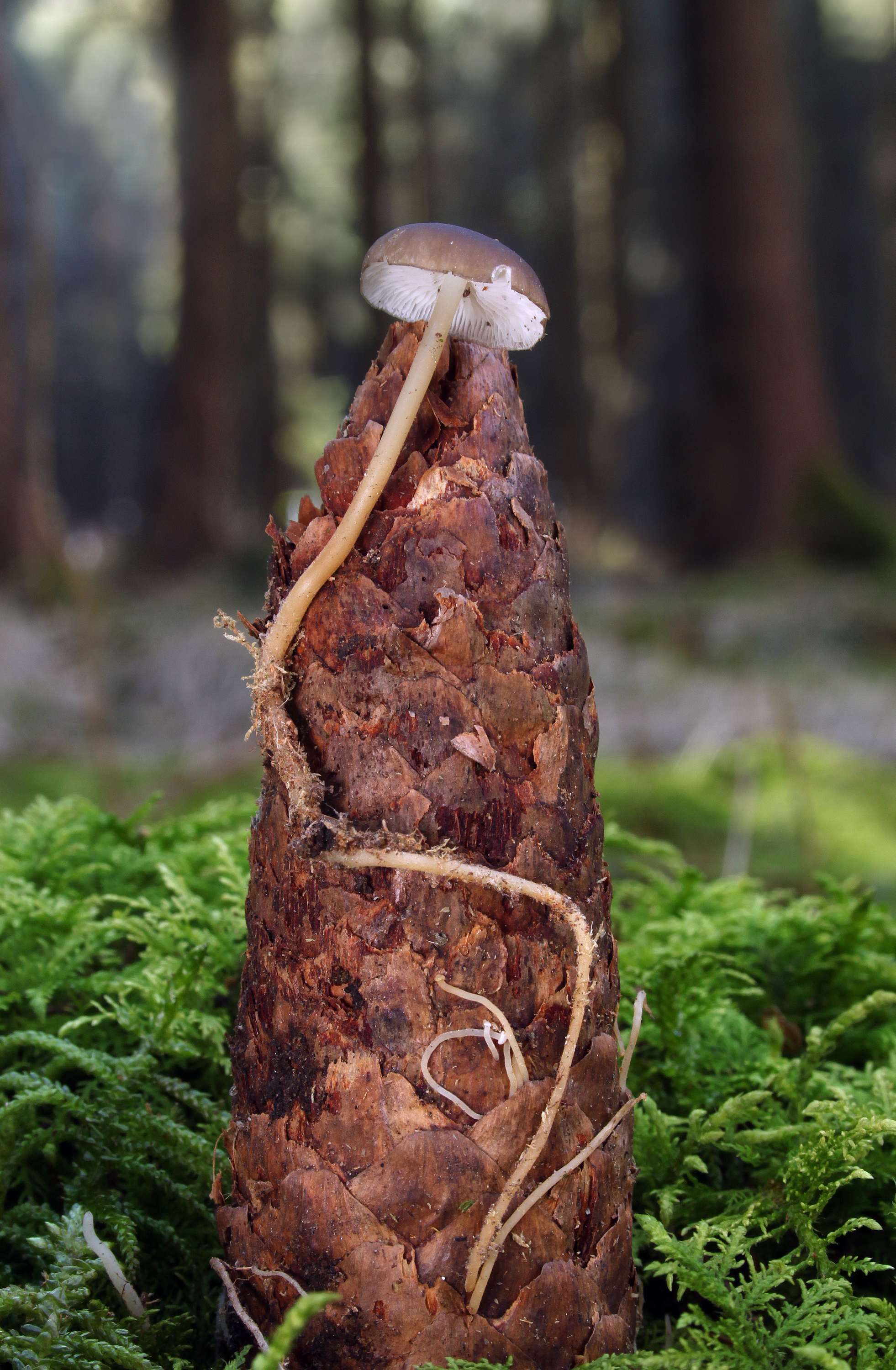 Strobilurus esculentus (stipe), Family: Physalacriaceae, Location: Southern Germany, Biberach a. d. Riss